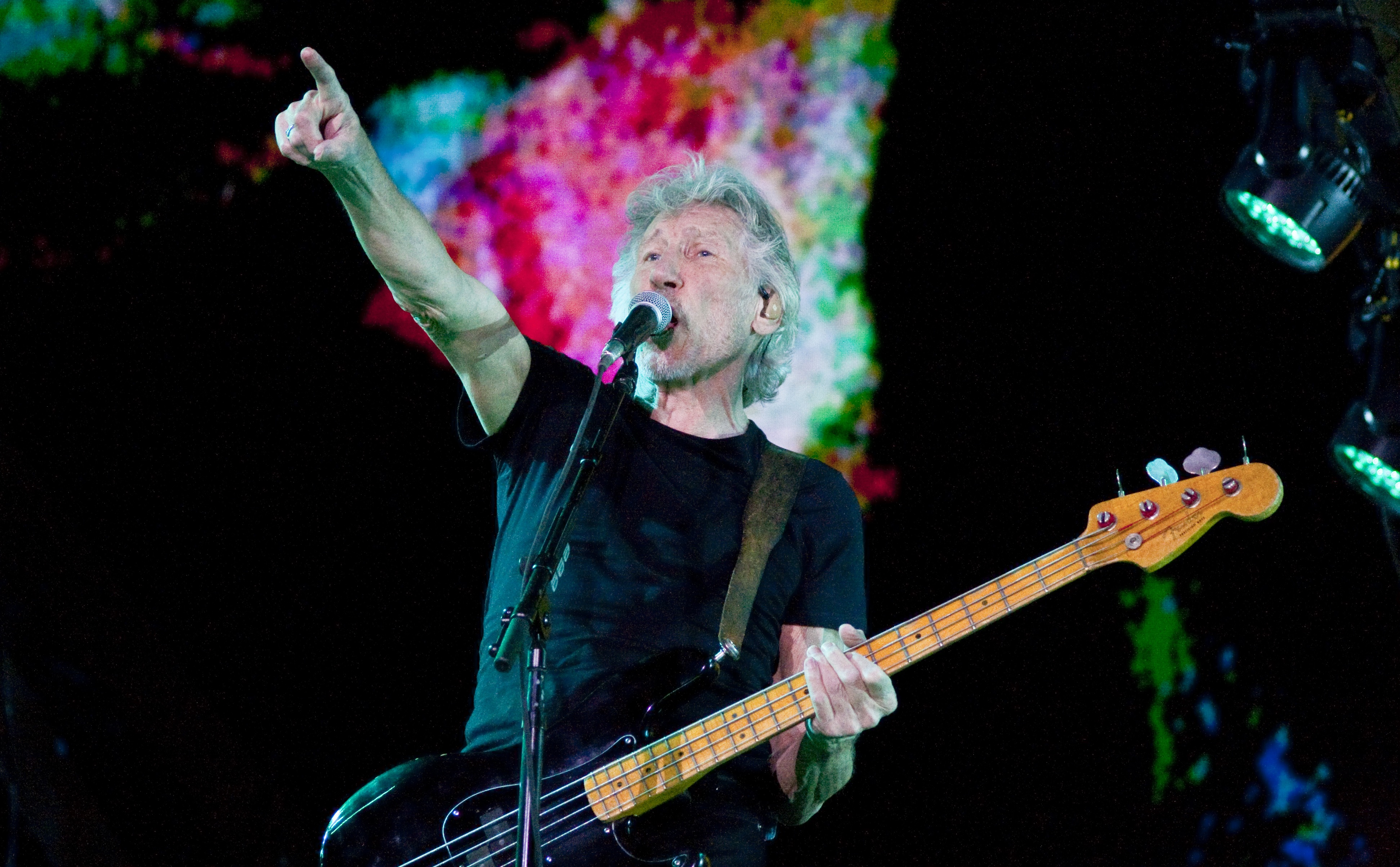 Roger Waters Us+Them Tour 2018, Estadio Nacional Chile